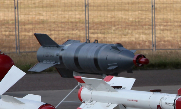 KAB-500-L russian laser-guided bomb